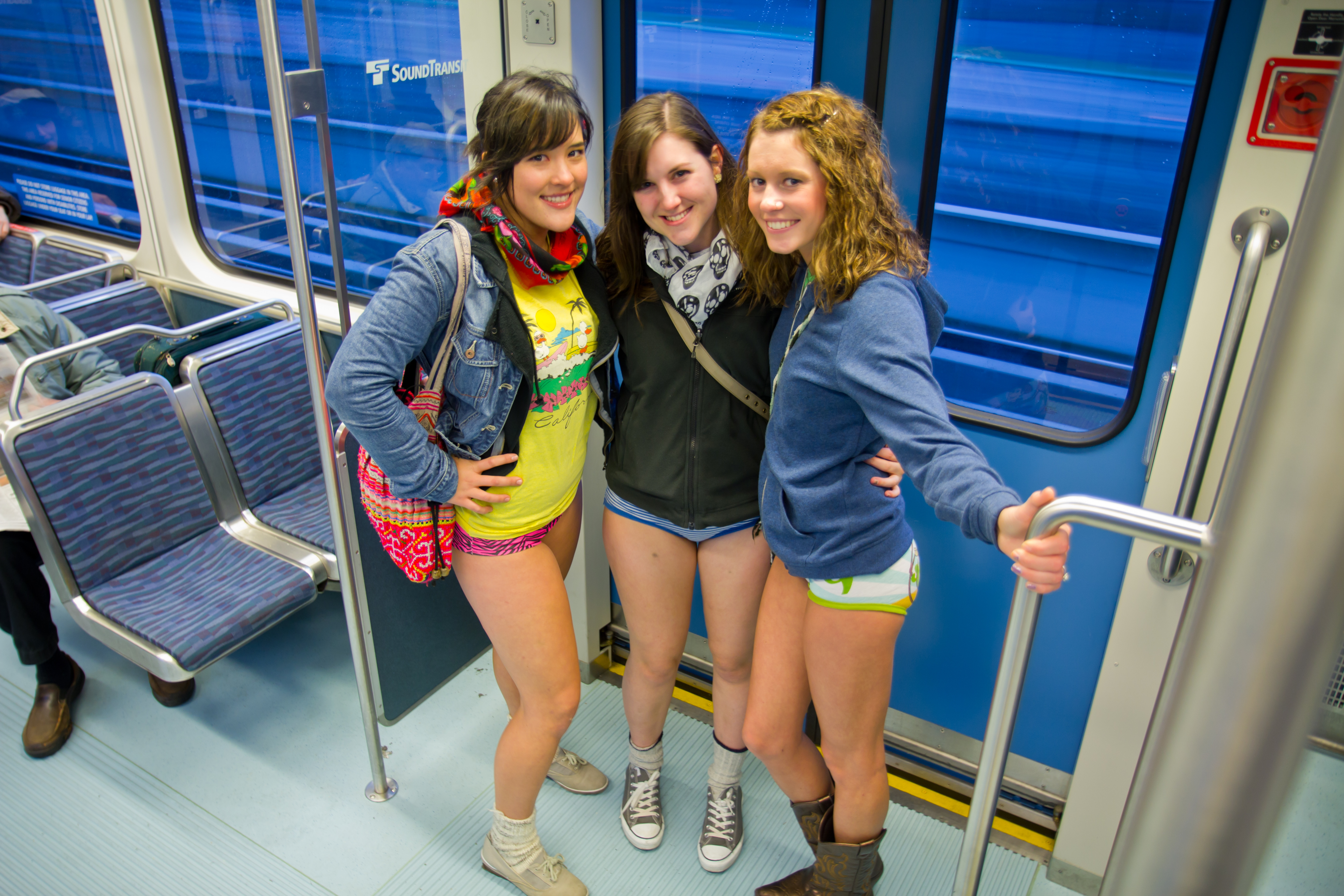 "No Pants Subway Ride". Departing SeaTac airport for Tukwila/International Boulevard Station